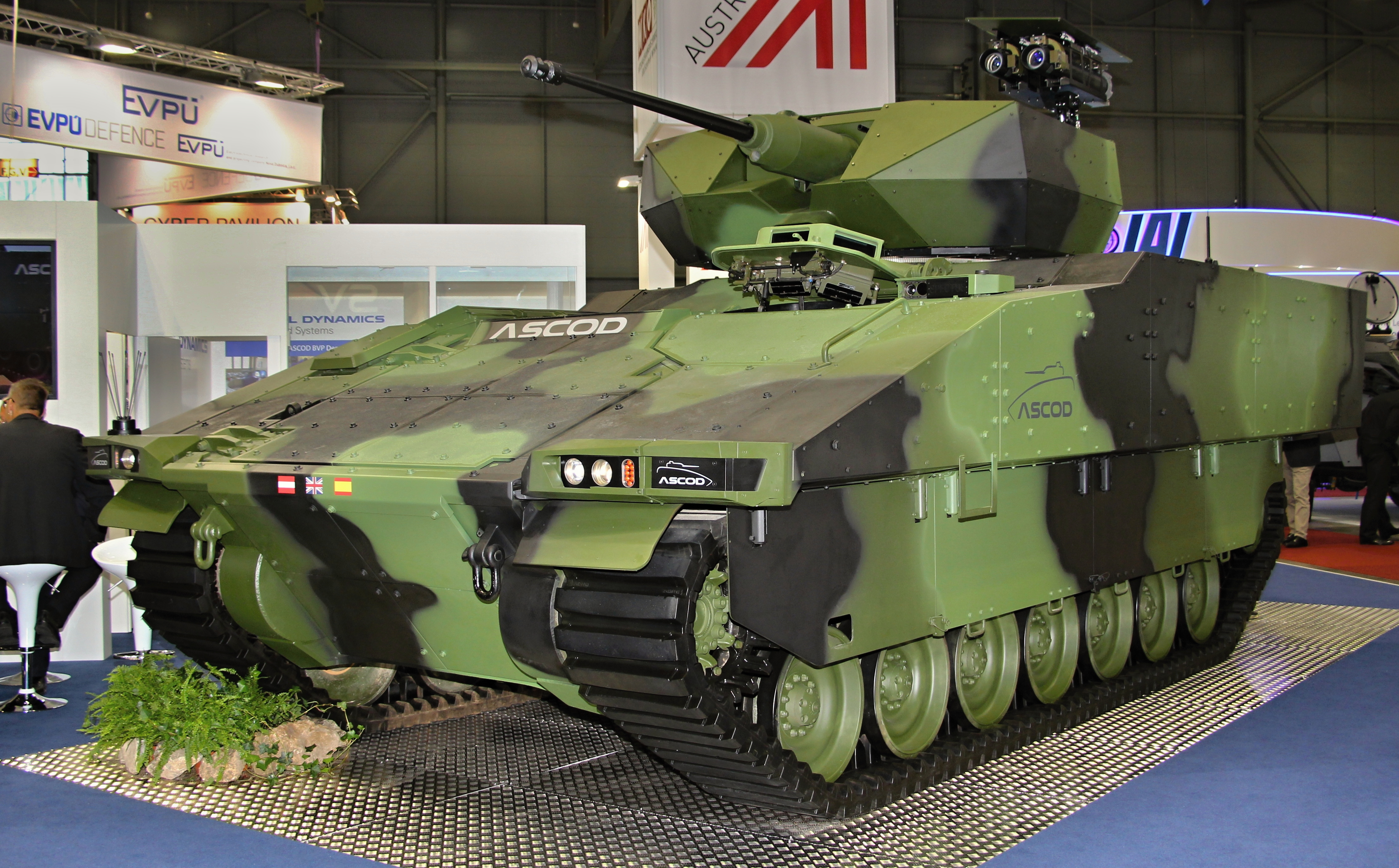 ASCOD infantry fighting vehicle with Samson Mk II remote weapon station. IDET 2017, Brno Exhibition Center, Czech Republic.